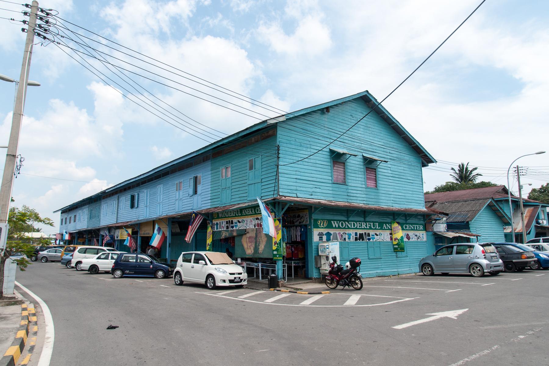 Old Shophouses in Kuala Penyu, Sabah)